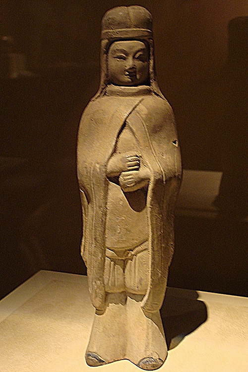 Figure of a female warrior. Northern Dynasties (A.D. 386 - 581) Excavated in Jing County, Hebei Province, 1948 A female Xianbei warrior, this figure is shown wearing a "wind hat" with a drooping cover, a cape, and an inner military uniform with armour. Her hands likely once held a weapon, and her physique is well proportioned and balanced.